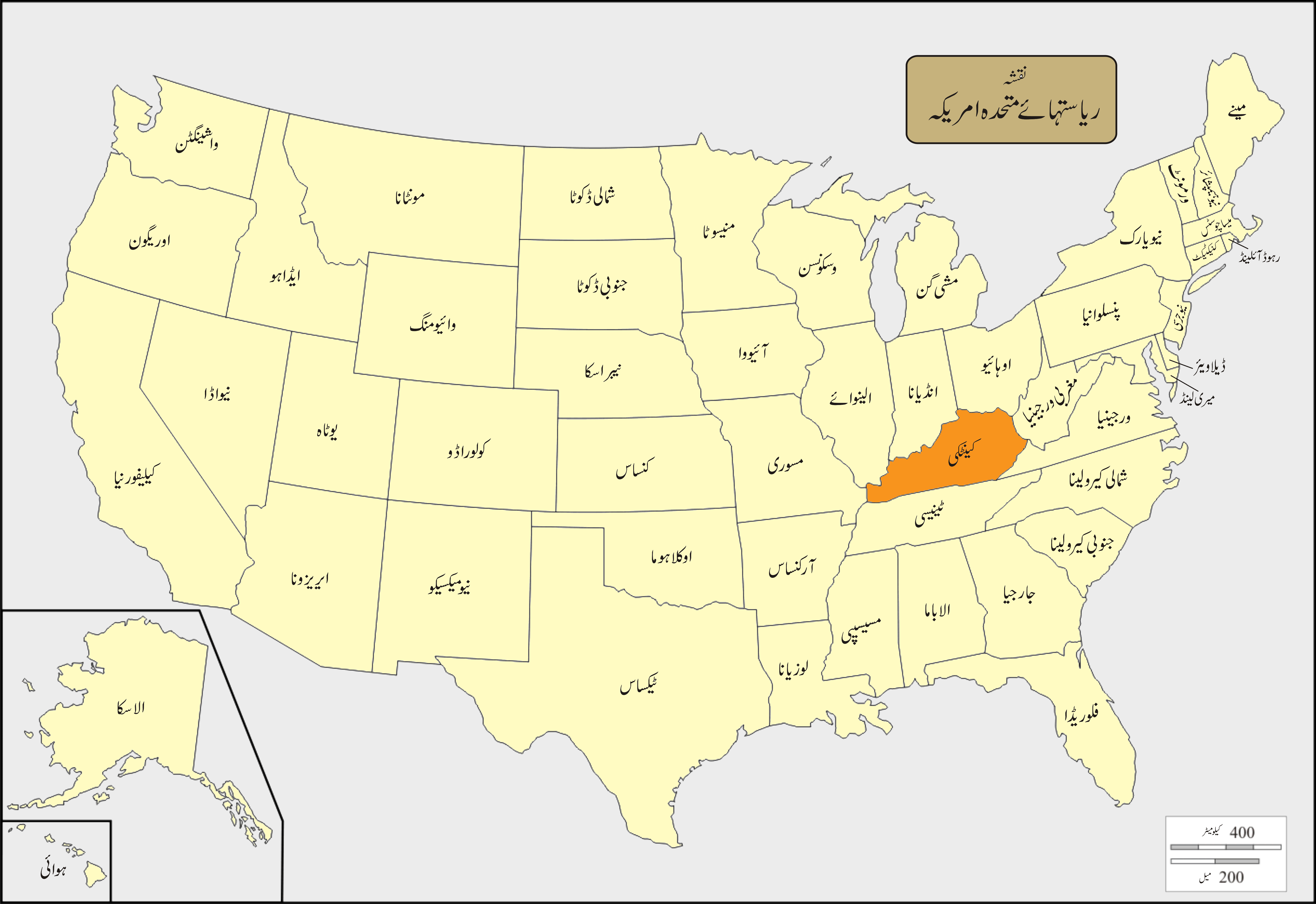 USA Names Kentucky